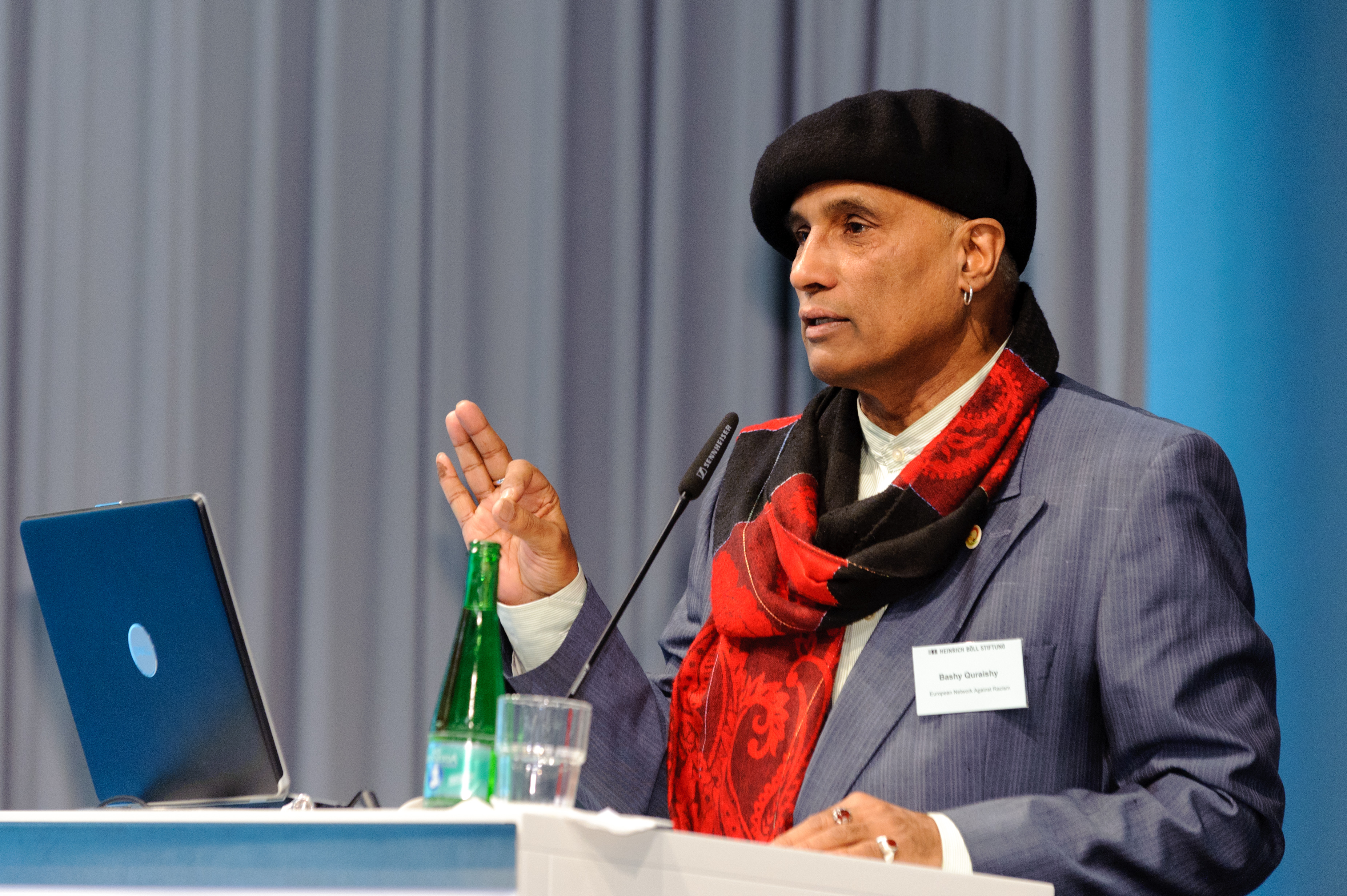 Bashy Quraishy, European Network against Racism Foto: Stephan Röhl